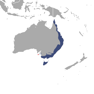 Common Ringtail Possum (Pseudocheirus peregrinus) range (blue — native, red — introduced)(except Western Ringtail Possum (Pseudocheirus peregrinus occidentalis) range)